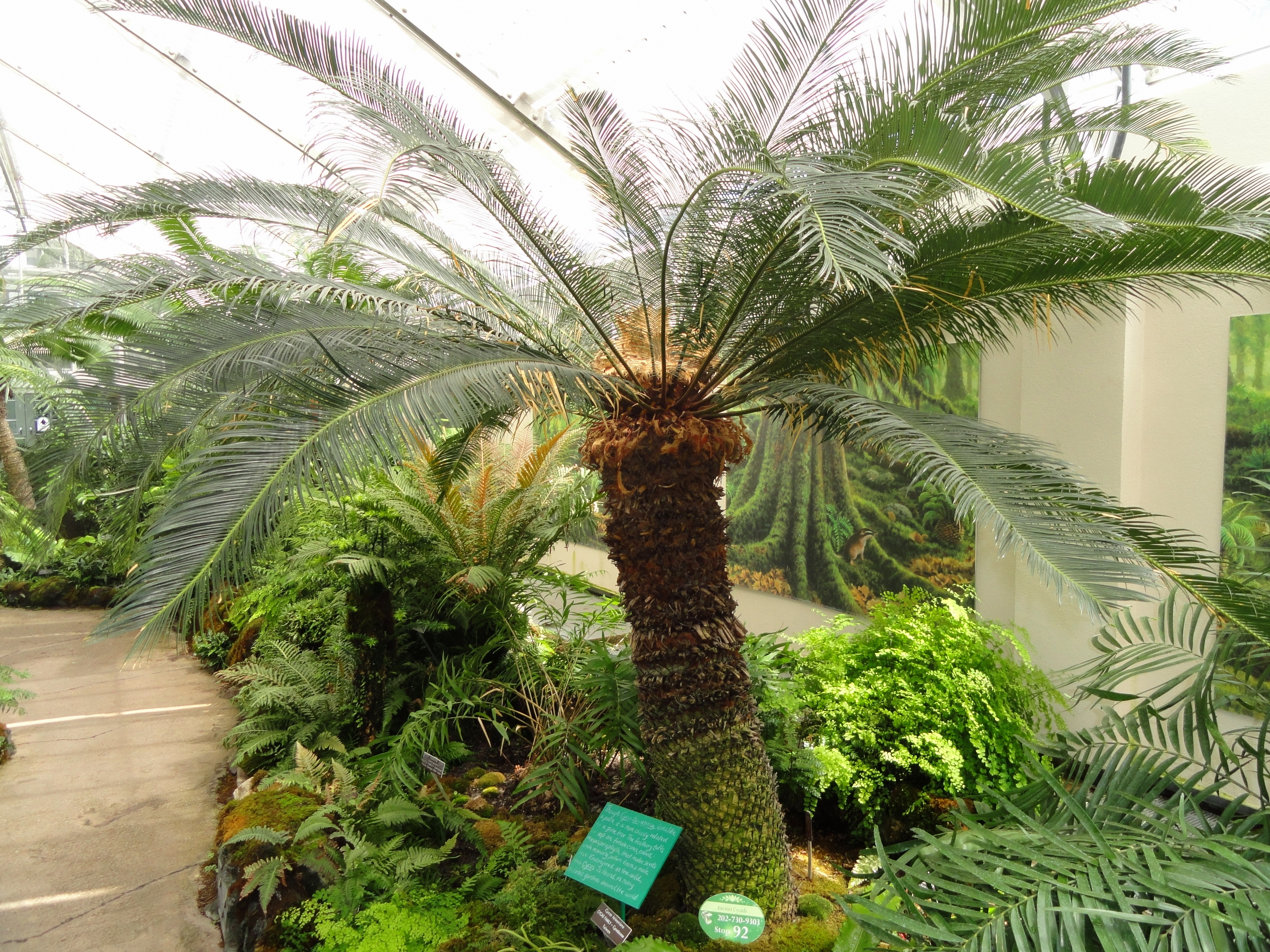 Botanical specimen in the United States Botanic Garden, Washington, DC, USA.